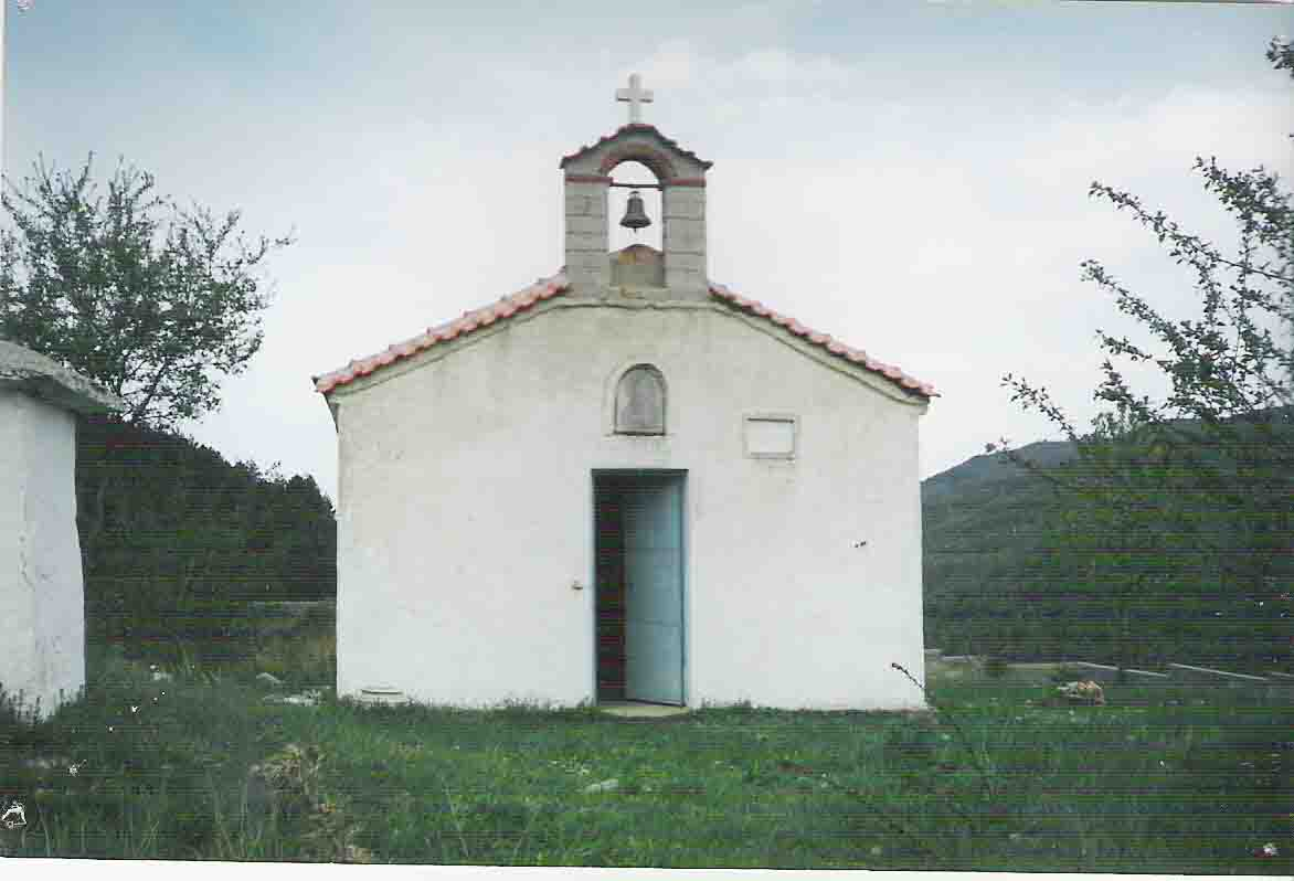 Agia Paraskevi church in Fteri, Pieria, Greece